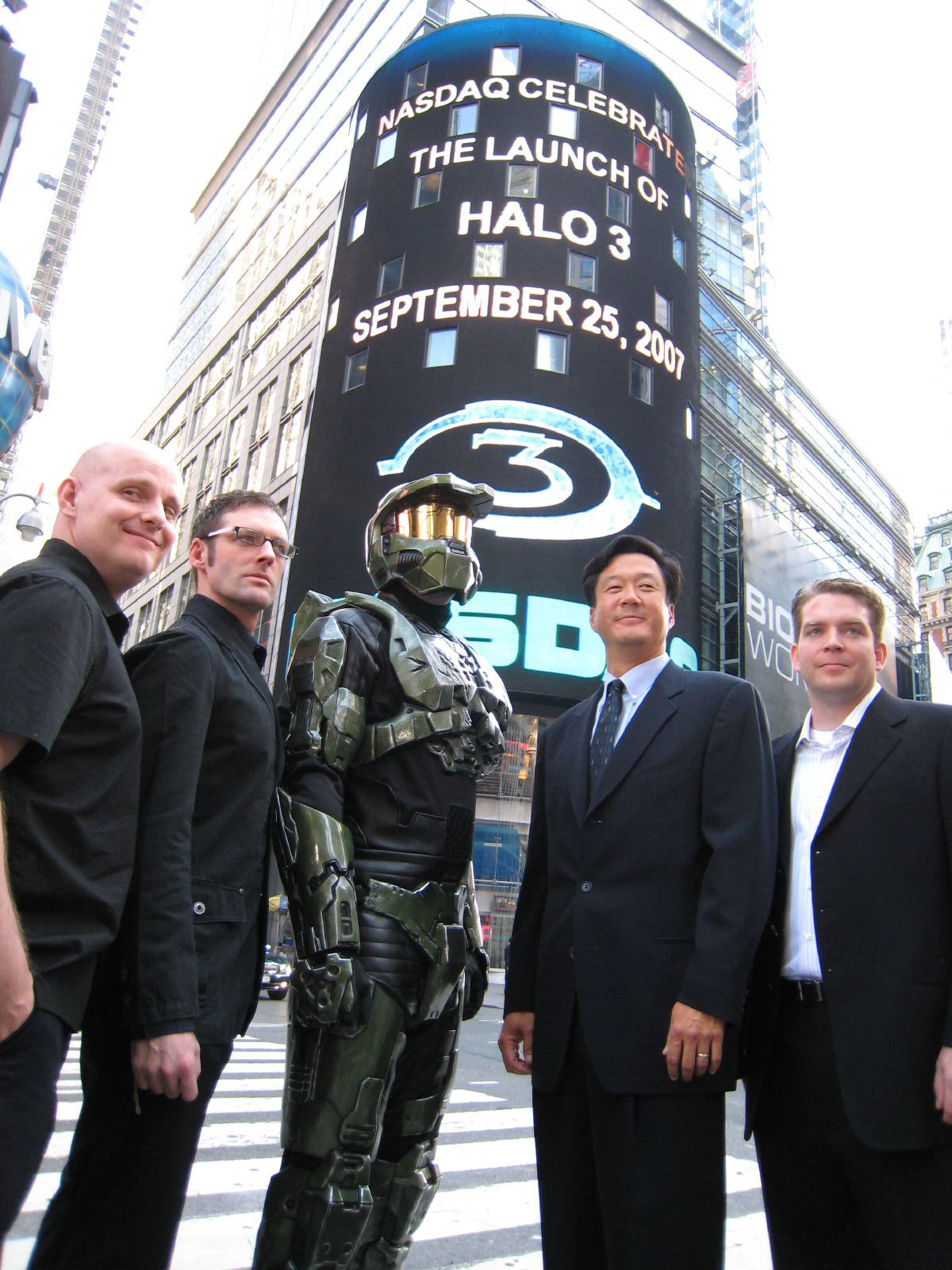 A photo of the NASDAQ building with key people to celebrate the release of Halo 3.